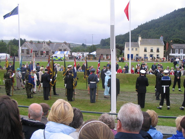 Tynwald Day, 2007 Part of the procession of dignitaries at the beginning of Tynwald.